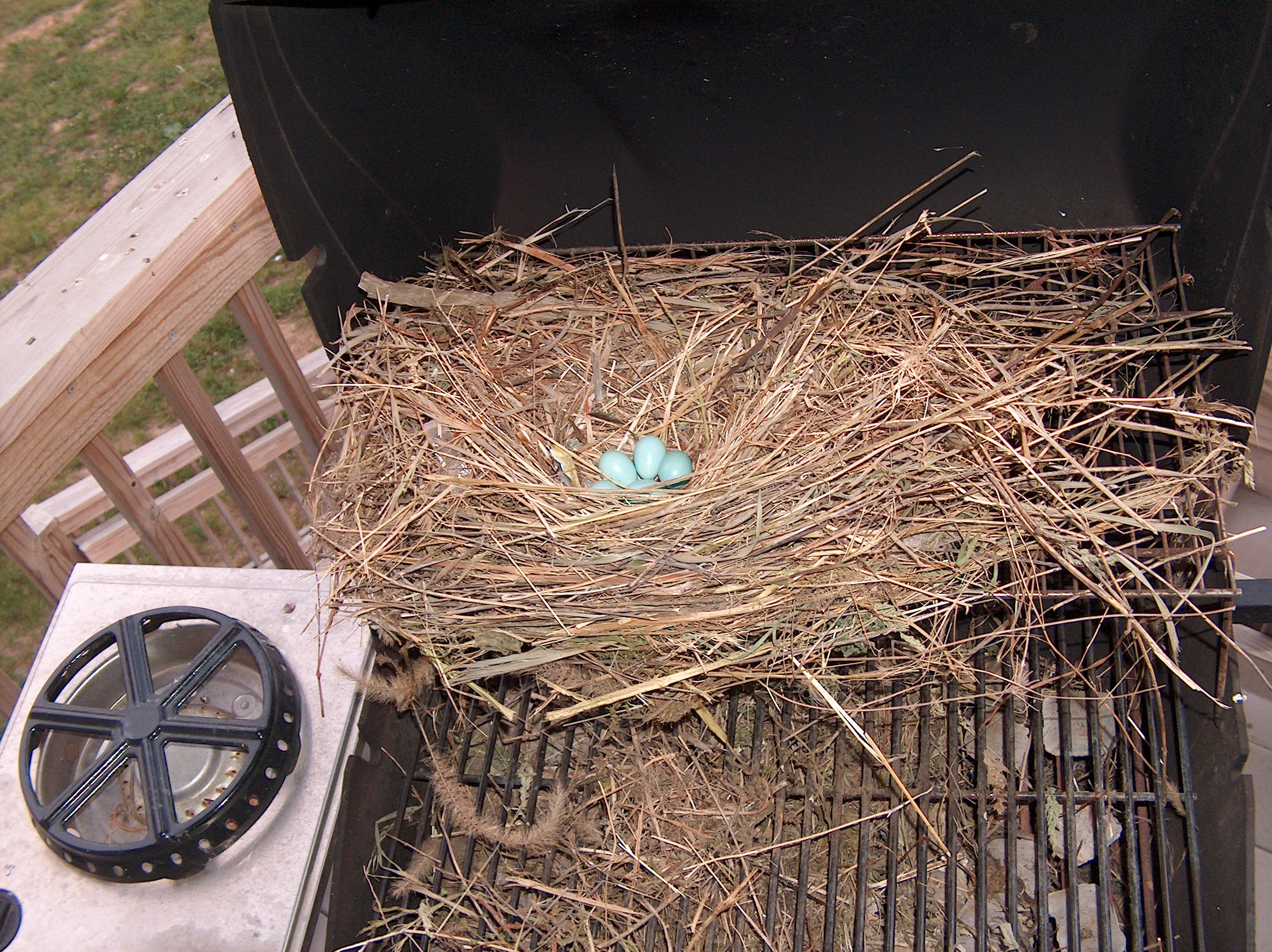 European starling (Sturnus vulgaris) nest inside gas grill. Photo taken by User:Mike R on 31 May, 2006.